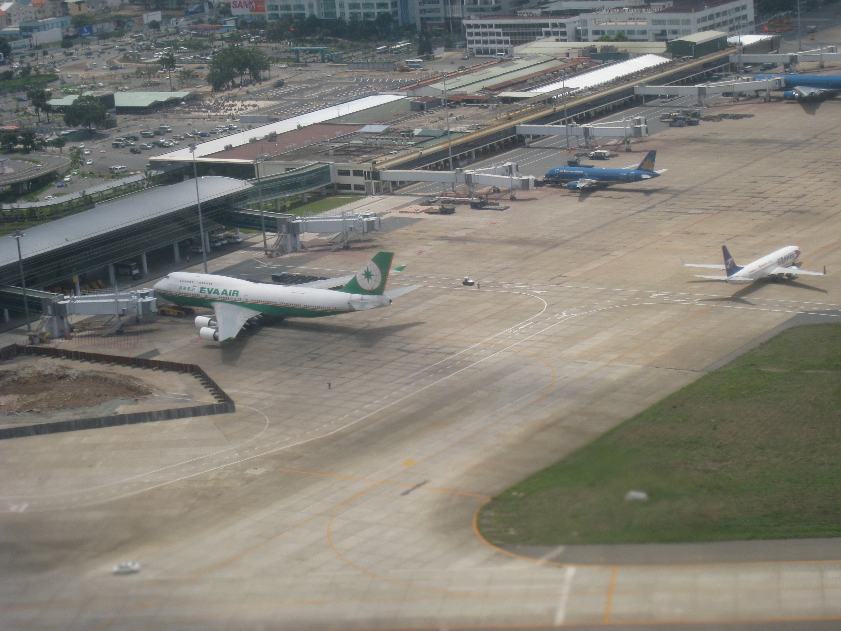 Tan Son Nhat Terminal